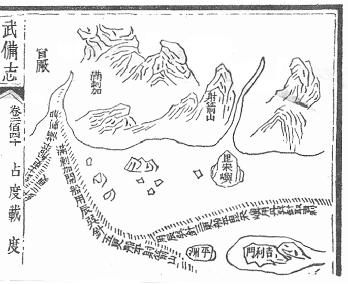 Mao Kun map showing Malacca (滿剌加), places marked include Mount Banang (射箭山) and Pulau Pisang (毘宋嶼)